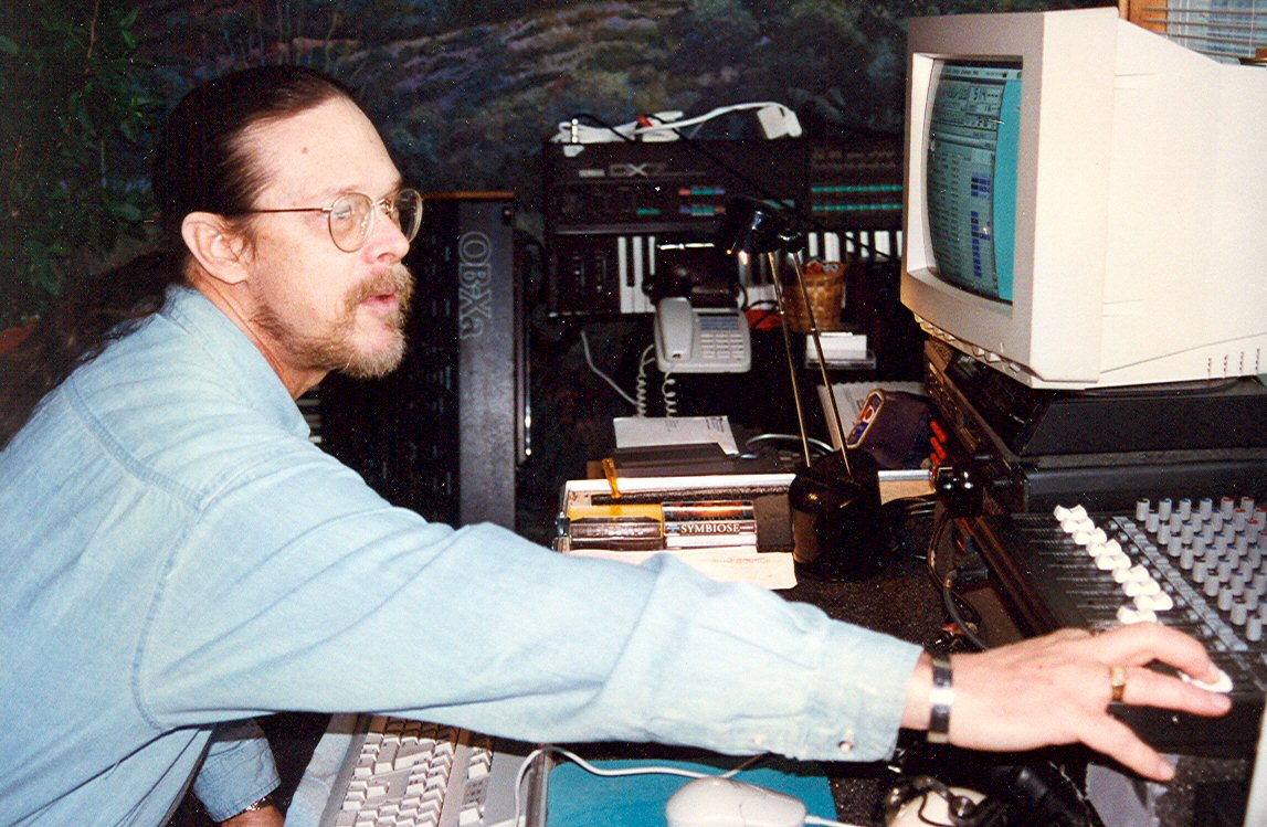 Shawn Phillips Shawn Phillips FAQ. I was a big fan of Shawn's, and when an illness kept him in Austin for a while, I interviewed him. These days he's living in South Africa, and still touring.